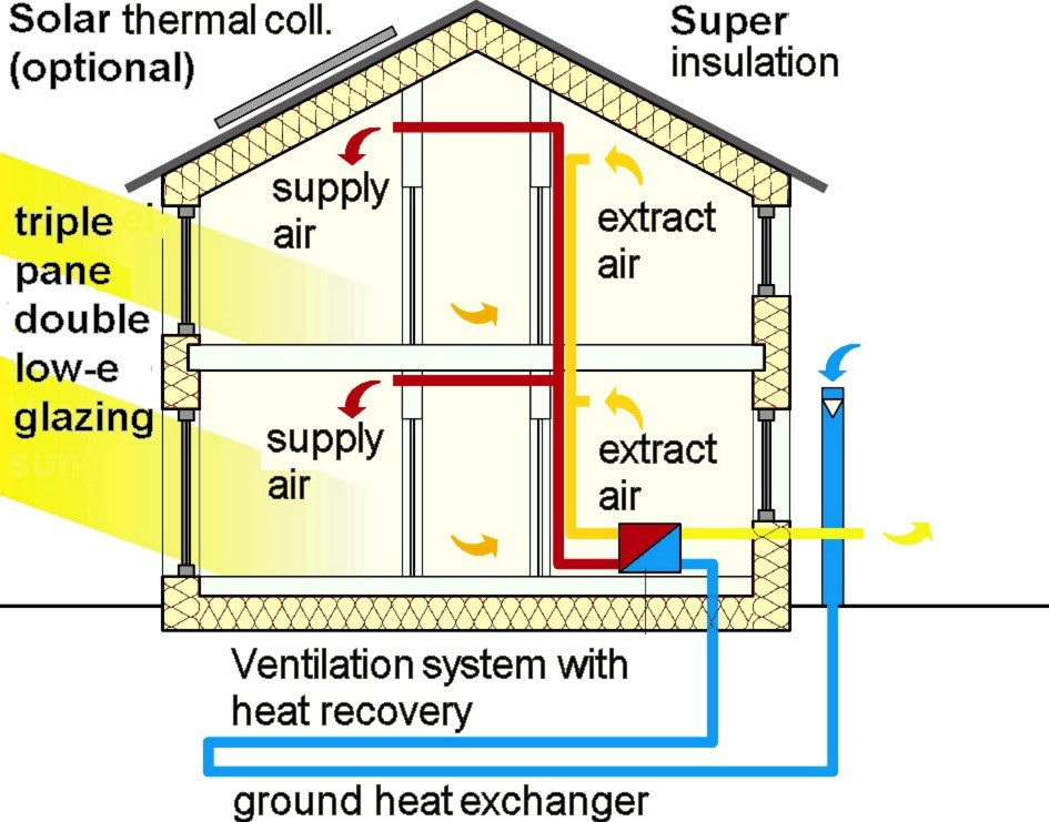 Passivhaus cross-section, English annotation.